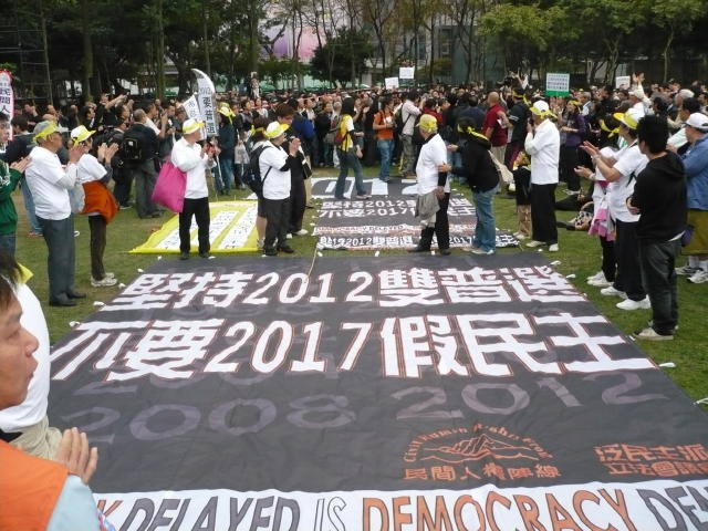 March for democracy in Hong Kong -- 1.13.2008